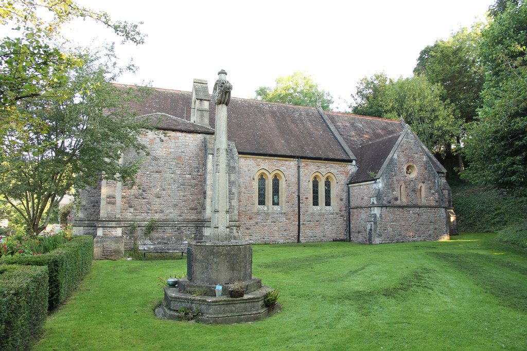 St.Mary Magdalene's church